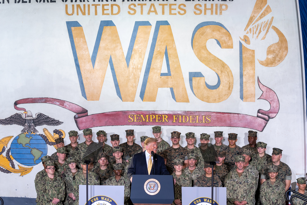 President Donald J. Trump addresses members of USS Wasp Tuesday, May 28, 2019, in Yokosuka, Japan. (Official White House Photo by Shealah Craighead)